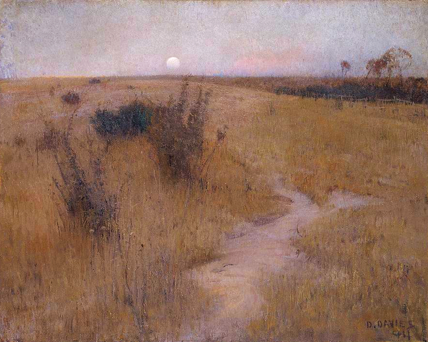 Moonrise, painting, oil on canvas, 119.8 x 150.4 cm, by David Davies